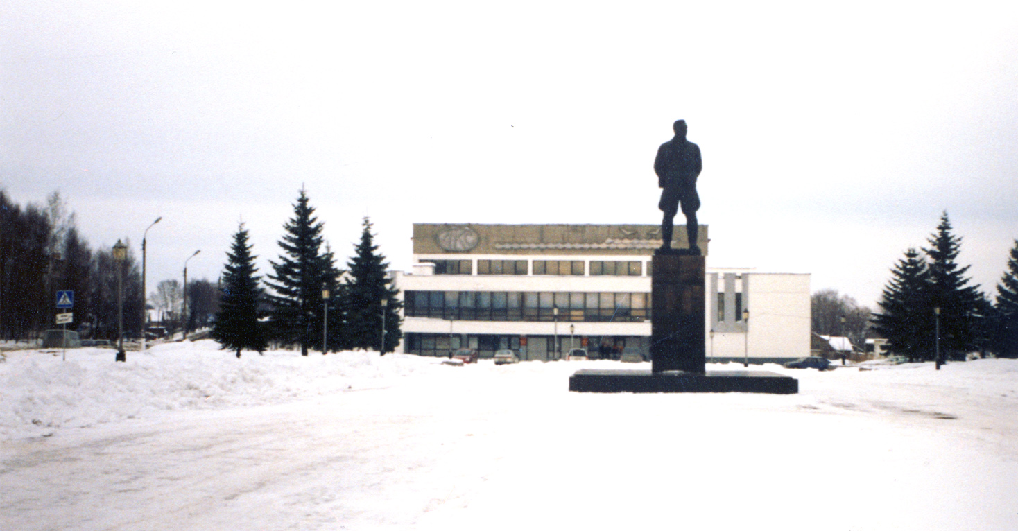 Monument to Valery Chkalov in front of Palace of Culture & Sport